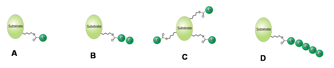 Comparison of different Ubiquitination modes: (A) Mono-Ubiquitination (B) Oligo-Ubiquitination (C) Multi-Ubiquitination (D) Polyubiquitination